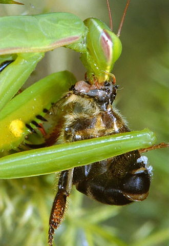 Mantis religiosa, eating